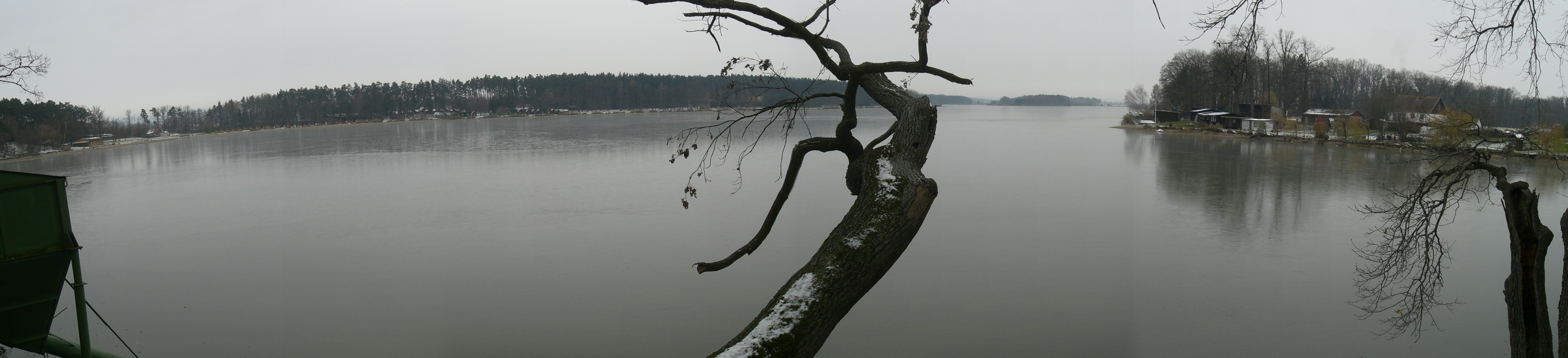 Bezdrev pond near Hluboká nad Vltavou, Czech Republic 49°2′53″N 14°23′10″E / 49.04806°N 14.38611°E